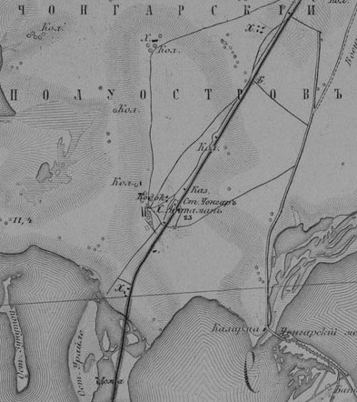 Ataman (nowadays enichesk Raion, Kherson Oblast, Ukraine) on the Map of Tavria Governate, 1865—1876